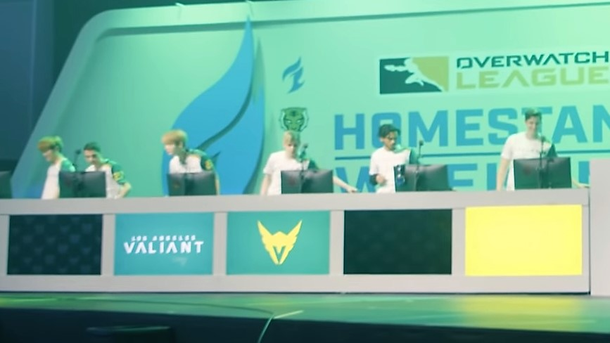 Los Angeles Valiant on stage at the Dallas Fuel Homestand at the Allen Event Center in 2019 Stage 2. From left to right: Fate, KSF, Izayaki, Agilities, SPACE, Custa. Cropped from screenshot.